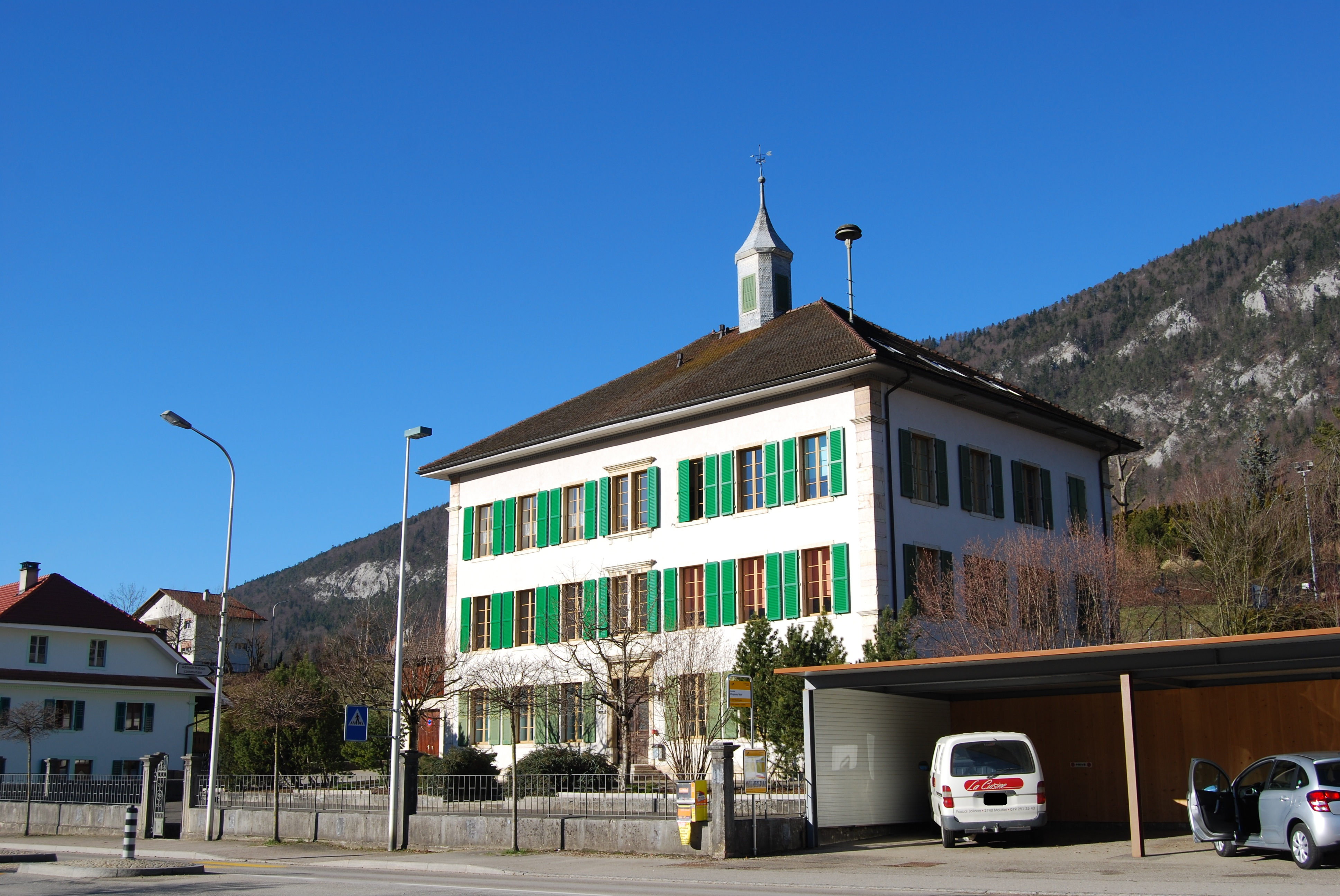 School of Grandval, canton of Bern, SwitzerlandEsperanto: Schule von Grandval, Kantono Berno, Svislando